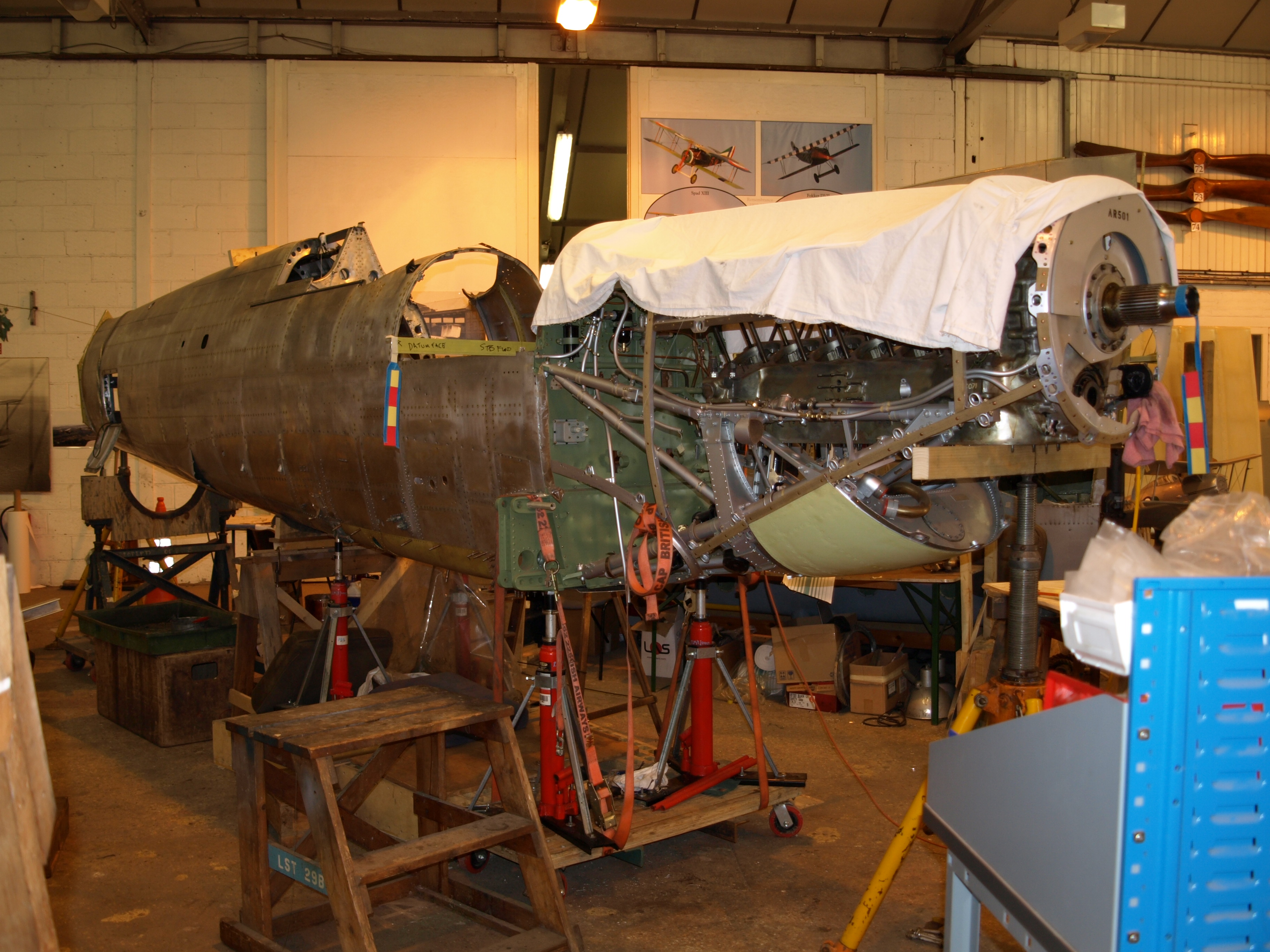 Supermarine Spitfire Vc, AR501, during deep strip maintenance at the Shuttleworth Collection